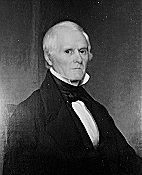 Image from of Samuel Cushman.